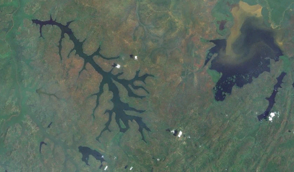 Lakes of north Burundi. Clockwise startet at 9°°: Lake Cohoha (south), Lake Rugwero, Lake Kanzigiri, Lake Rwihinda